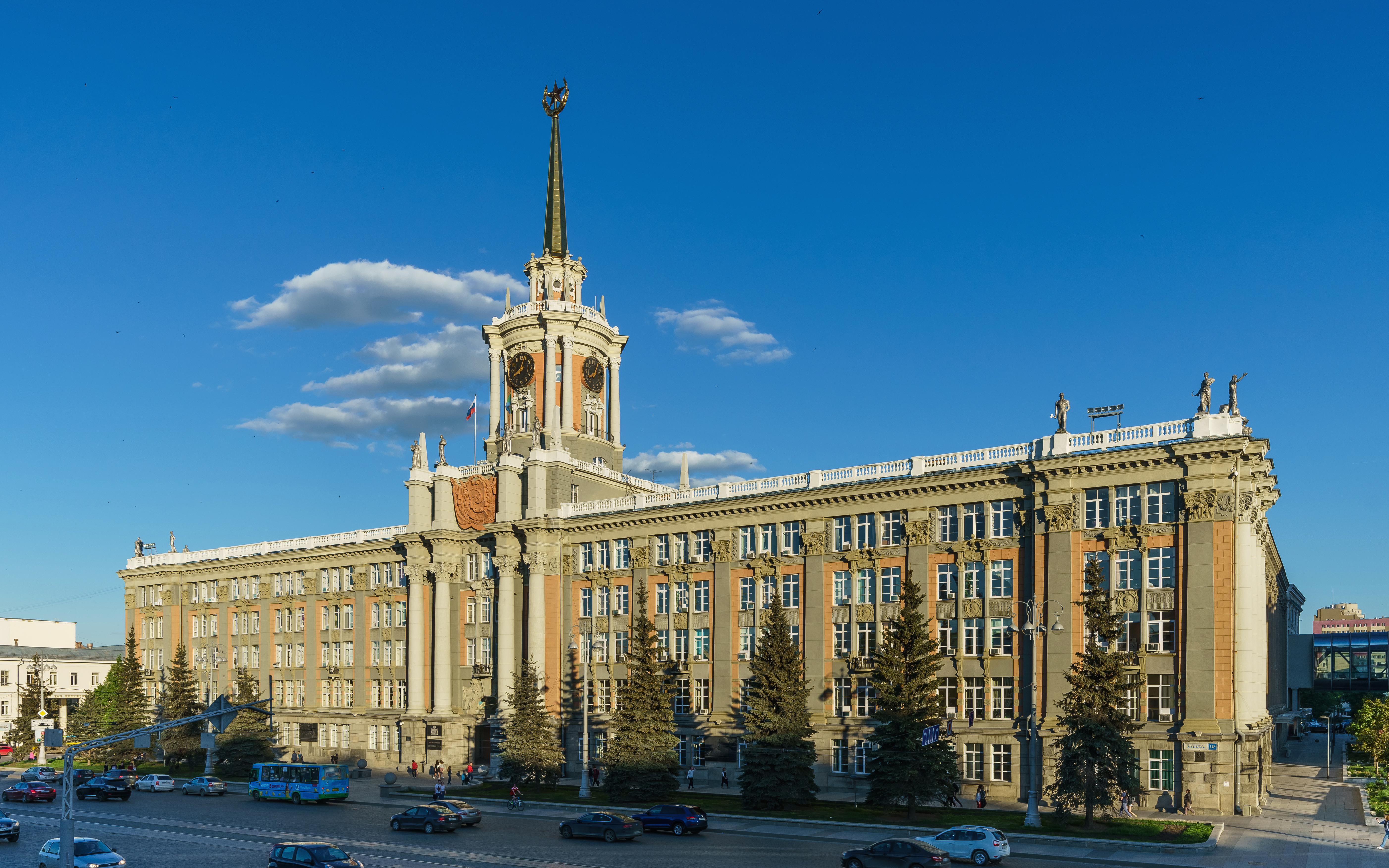 Building at Lenina Avenue 24a (City Duma) in Ekaterinburg, Russia